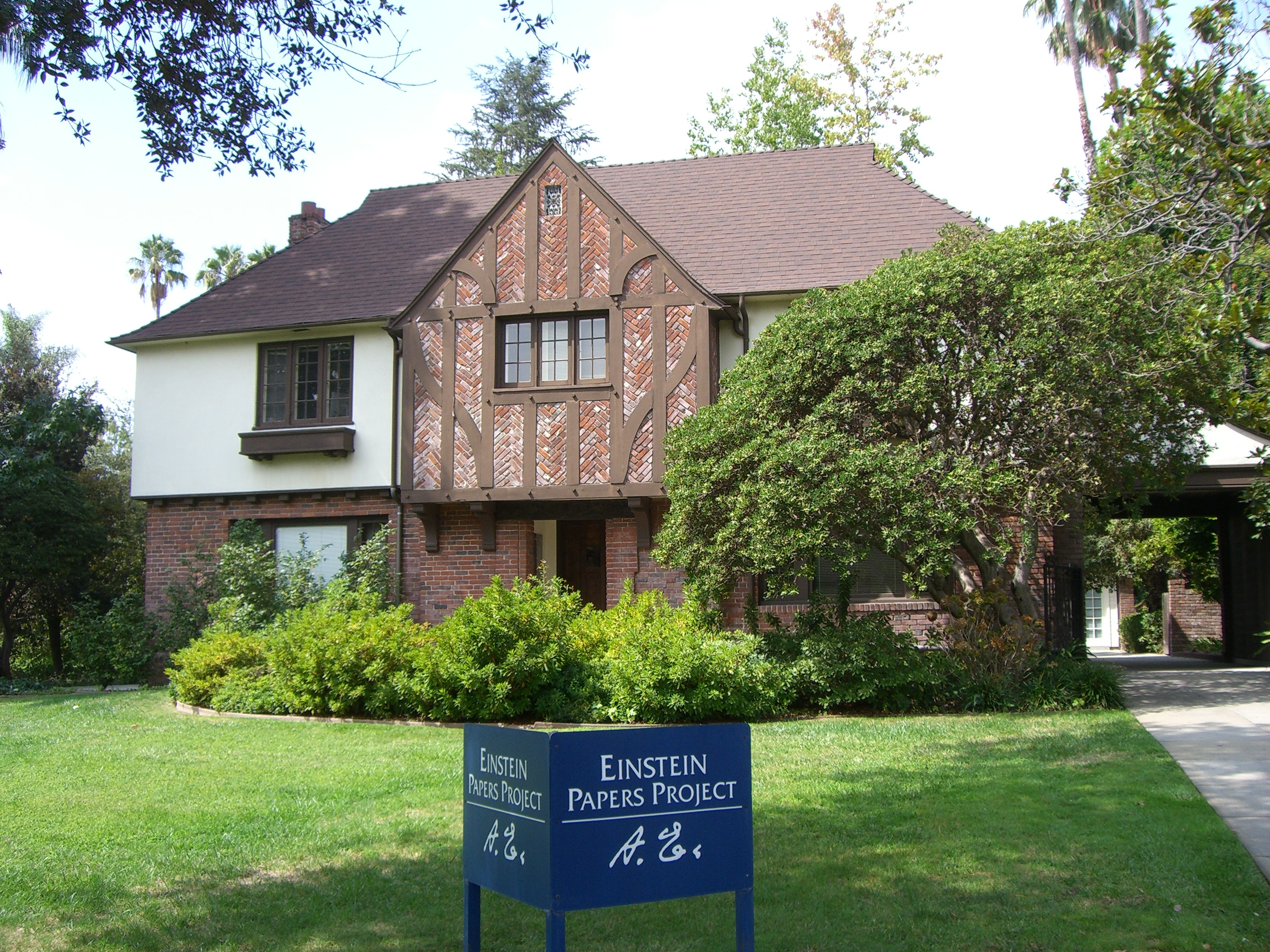 The current (2007) home of the Einstein Papers Project in Pasadena, California